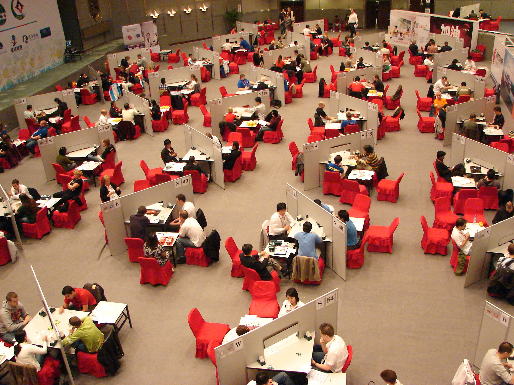 Picture from the Under-28 Team Tournament at the 1st World Mind Sports Games, held in Beijing, China, 3-18 October 2008.